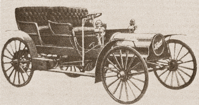 1911 Kearns Model F 20 HP Surrey